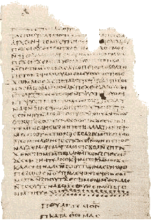 Image of the Last Page of the Coptic Manuscript of the Gospel of Thomas. The title "peuaggelion pkata Thomas" is at the end. Courtesy of the Institute for Antiquity and Christianity, Claremont Graduate University.